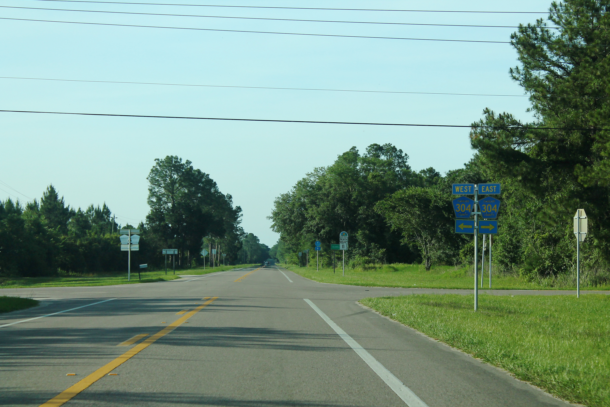 FL11nRoad-CR304ewSigns